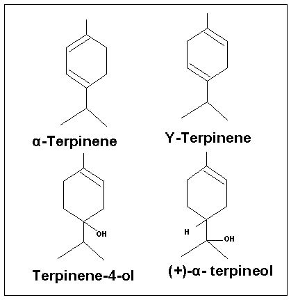 oil components